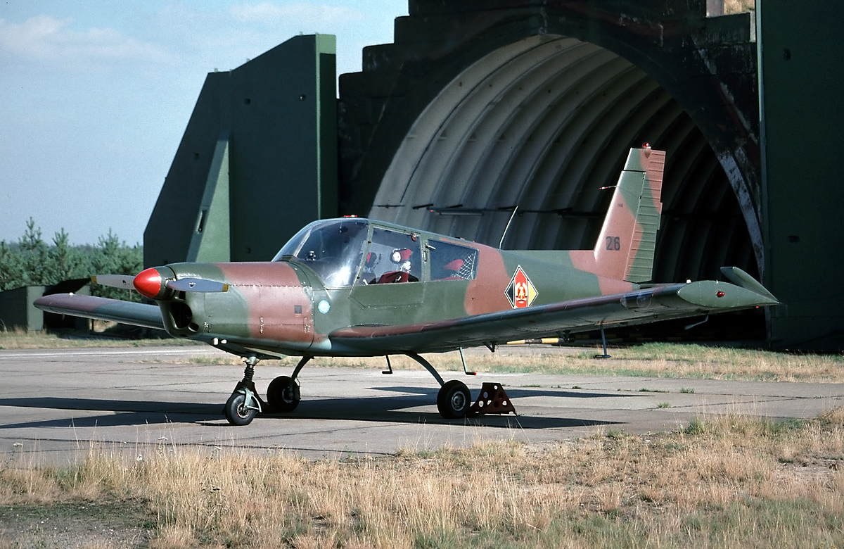 Toy plane at Preschen.